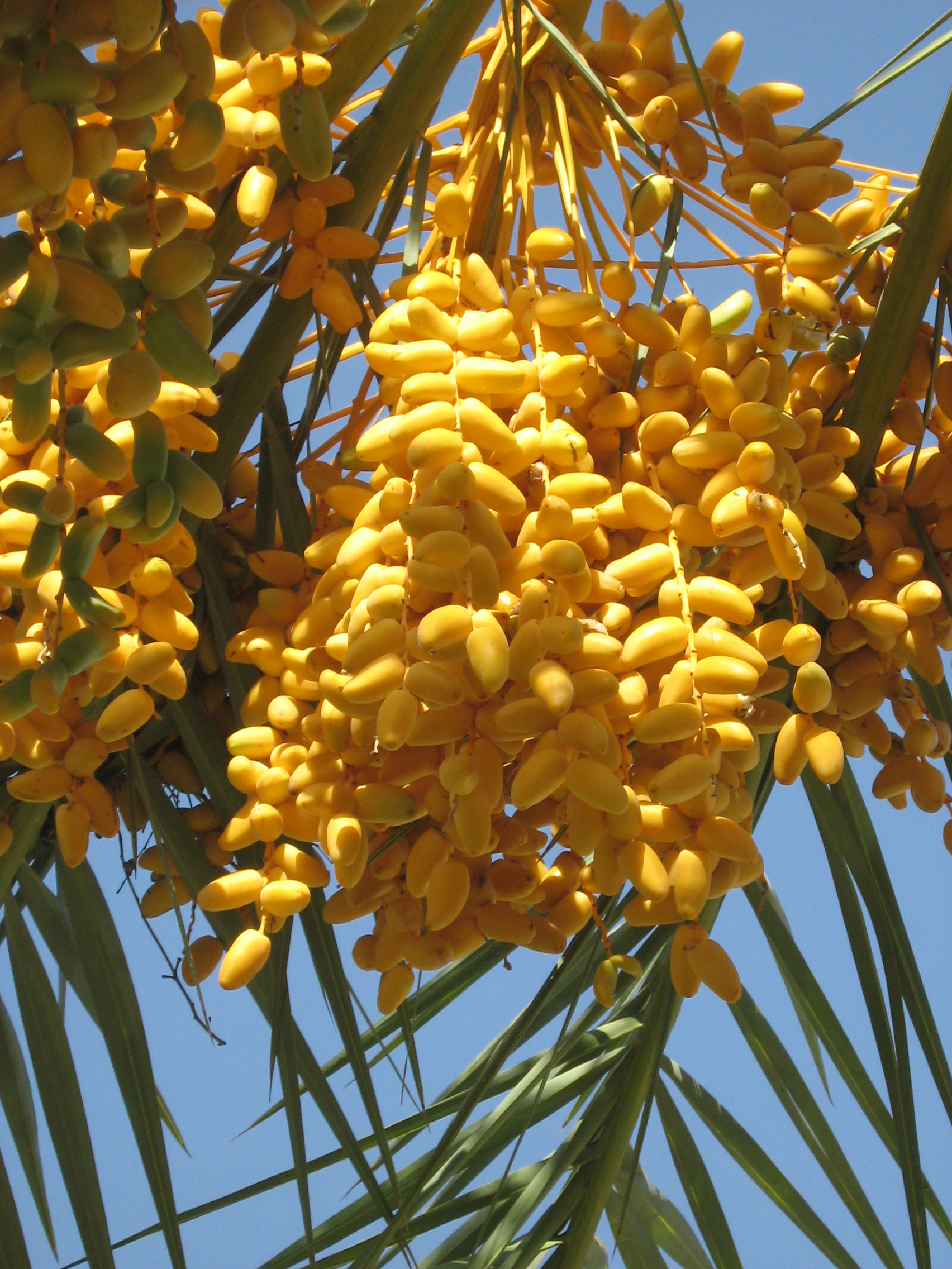 Ripening dates from around Tripoli.